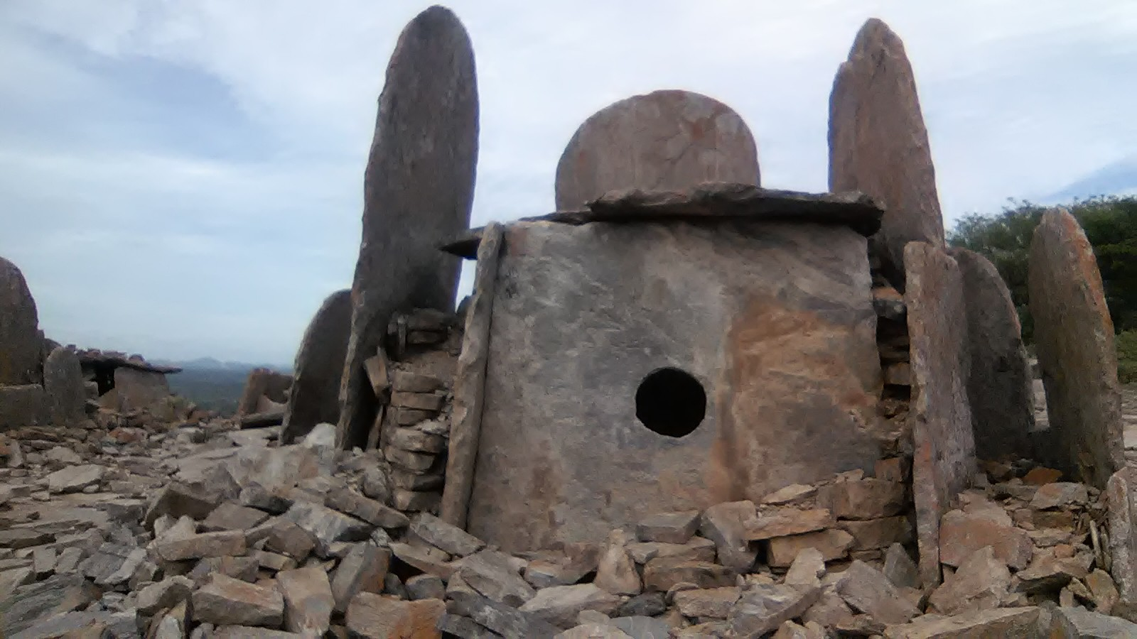 krishnagiri distick moral parai stone age memoreal